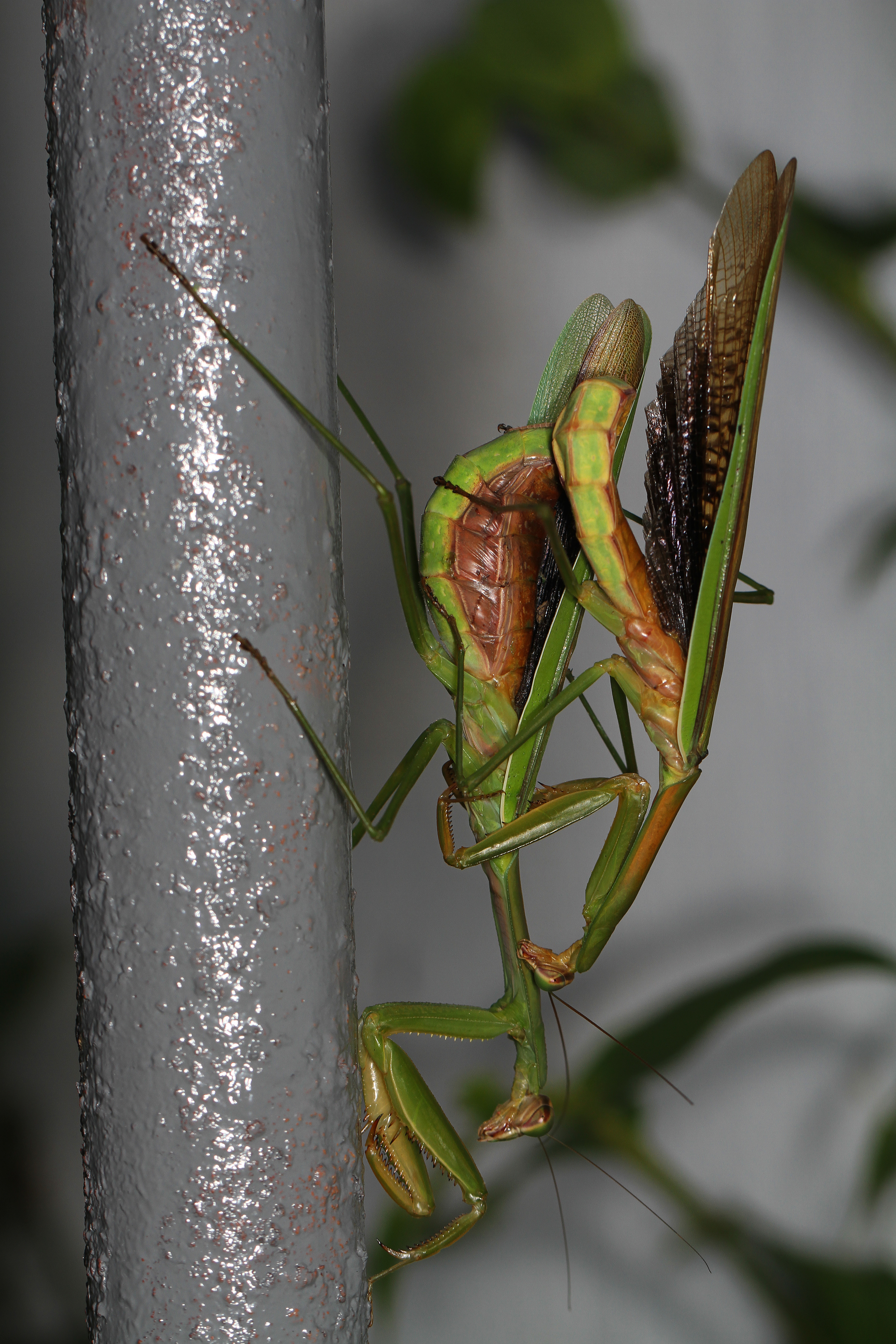 Chinese Mantis - Tenodera sinensis, Woodbridge, Virginia